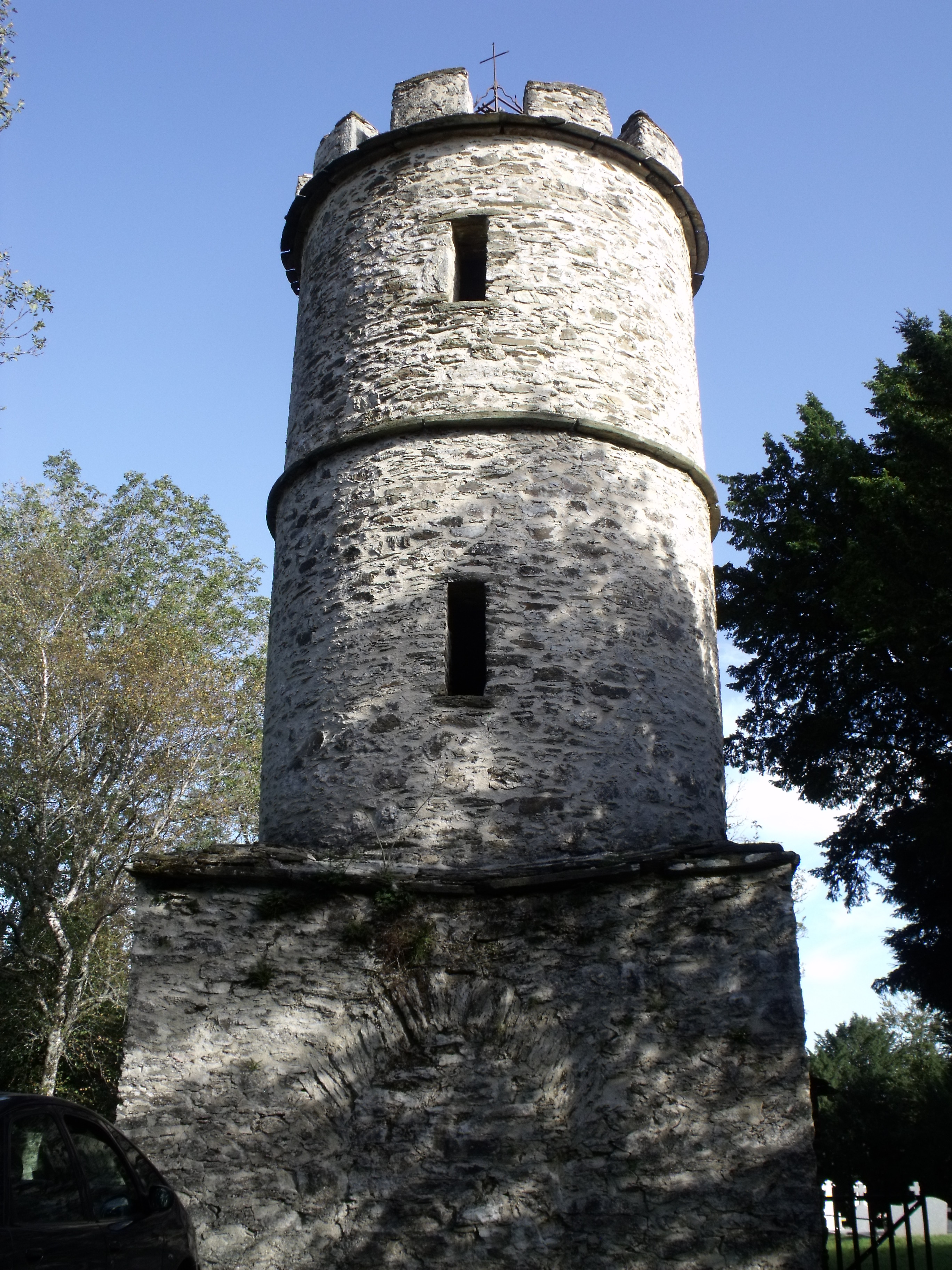 One of the oldest chapels of the Tarn, the first mention dates back to 972.